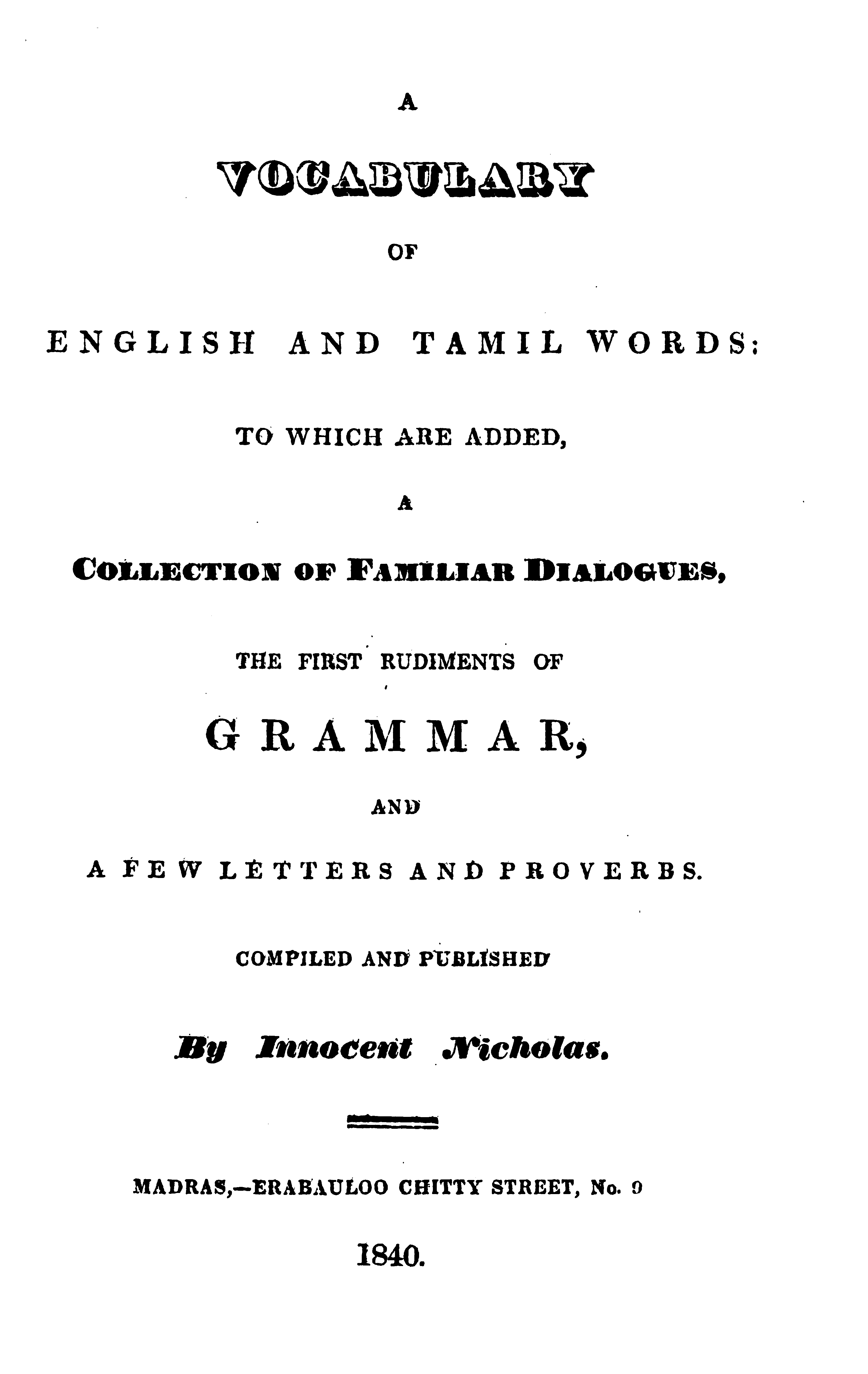 1840A.D. - A vocabulary of English and Tamil words published from Chennai(Madras)